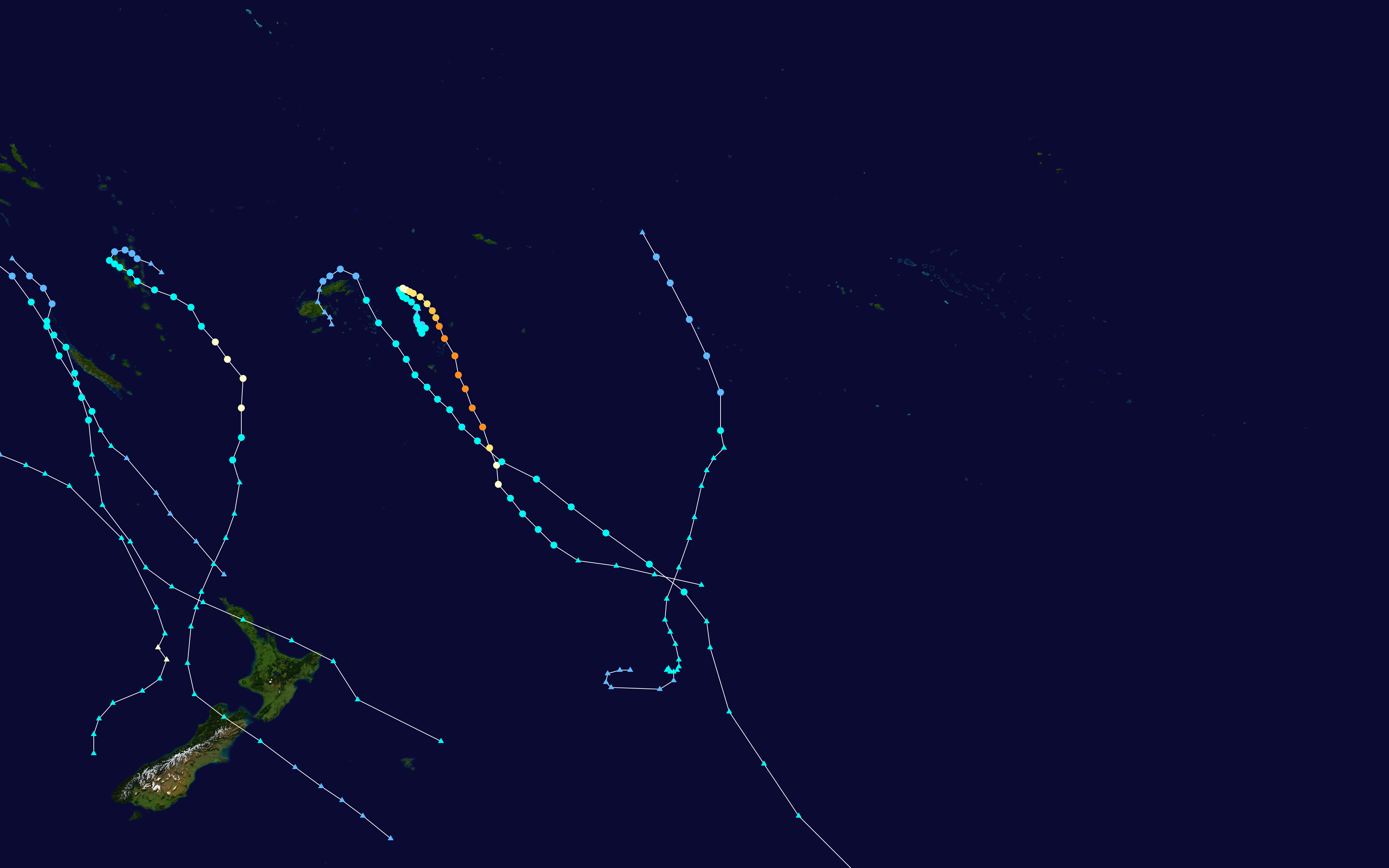 This map shows the tracks of all tropical cyclones in the 2013-14 South Pacific cyclone season. The points show the location of each storm at 6-hour intervals. The colour represents the storm's maximum sustained wind speeds as classified in the Saffir-Simpson Hurricane Scale (see below), and the shape of the data points represent the type of the storm. Saffir–Simpson scale Tropical depression≤38 mph≤62 km/h Category 3111–129 mph178–208 km/h Tropical storm39–73 mph63–118 km/h Category 4130–156 mph209–251 km/h Category 174–95 mph119–153 km/h Category 5≥157 mph≥252 km/h Category 296–110 mph154–177 km/h Unknown Storm type Tropical cyclone Subtropical cyclone Extratropical cyclone / Remnant low / Tropical disturbance / Monsoon depression